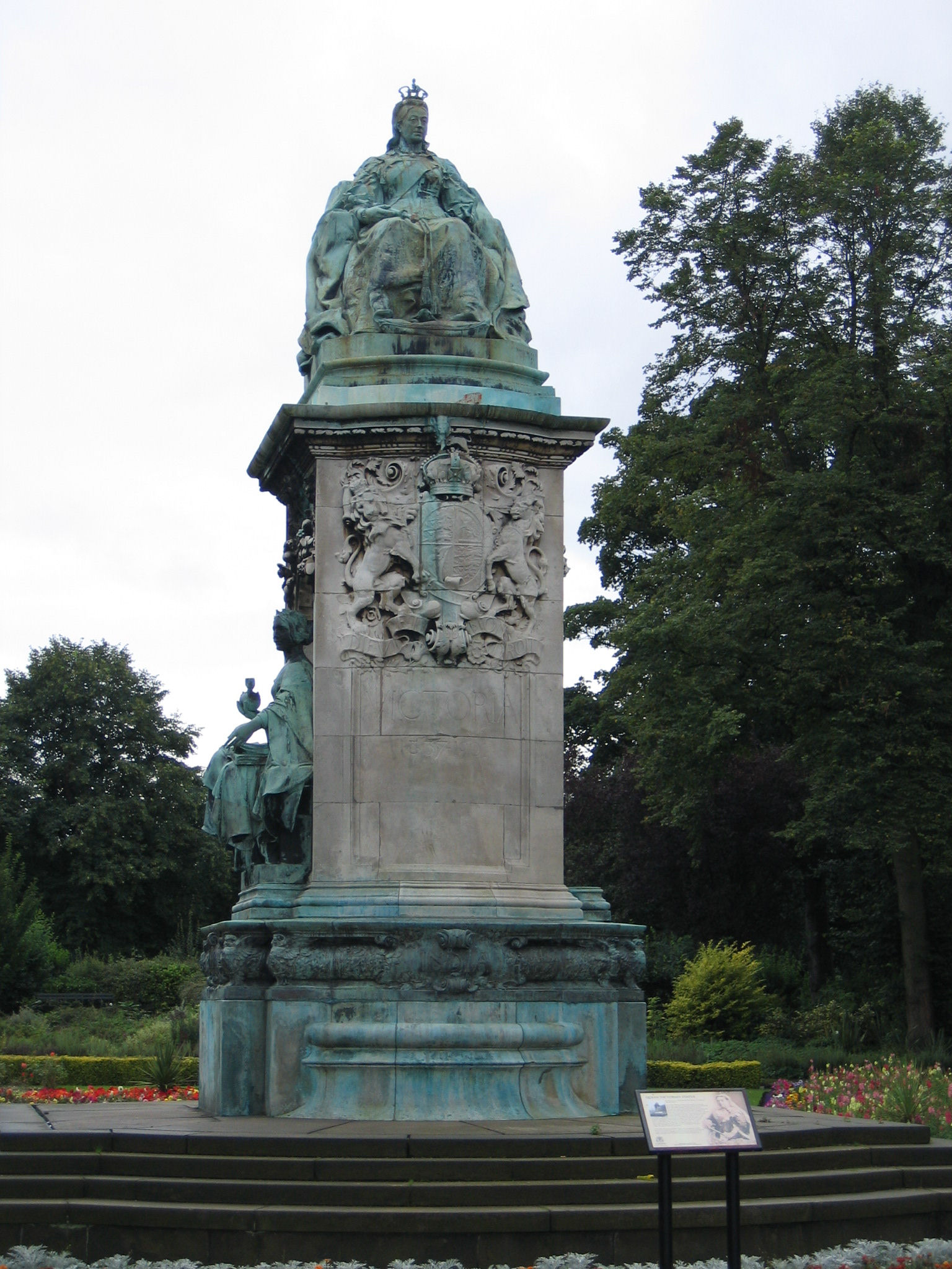 Statue of Queen Victoria, Woodhouse Moor Park, Leeds, West Yorkshire. 1905 by George J. Frampton. Moved to present position 1937.